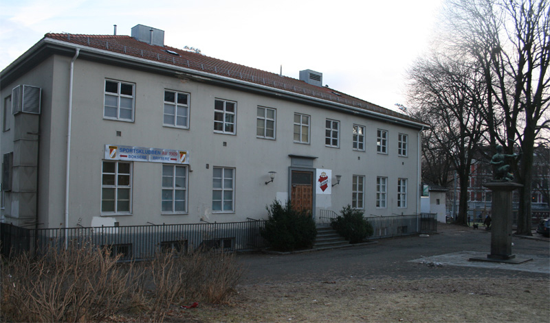 Club house at Dælenenga sports arena in Oslo, Norway